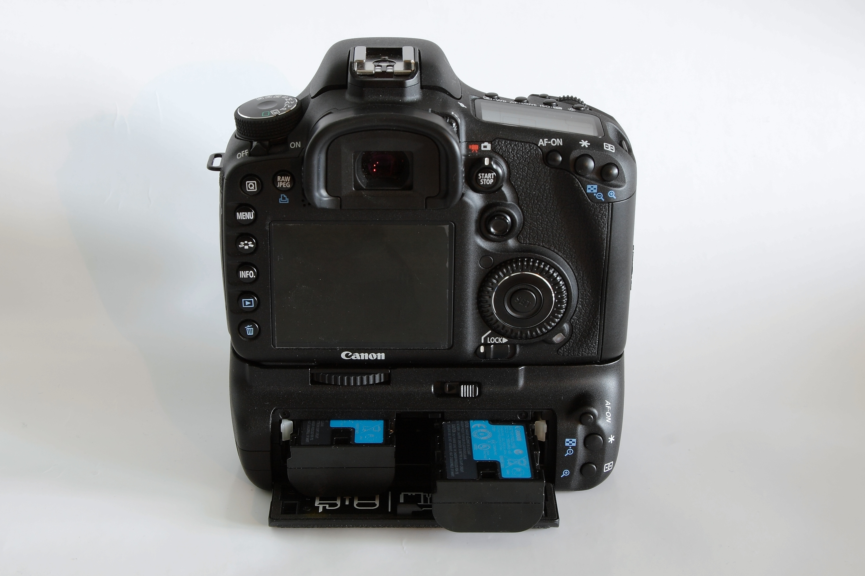 Canon EOS 7D with battery grip BG-E7, backside view with battery door open.